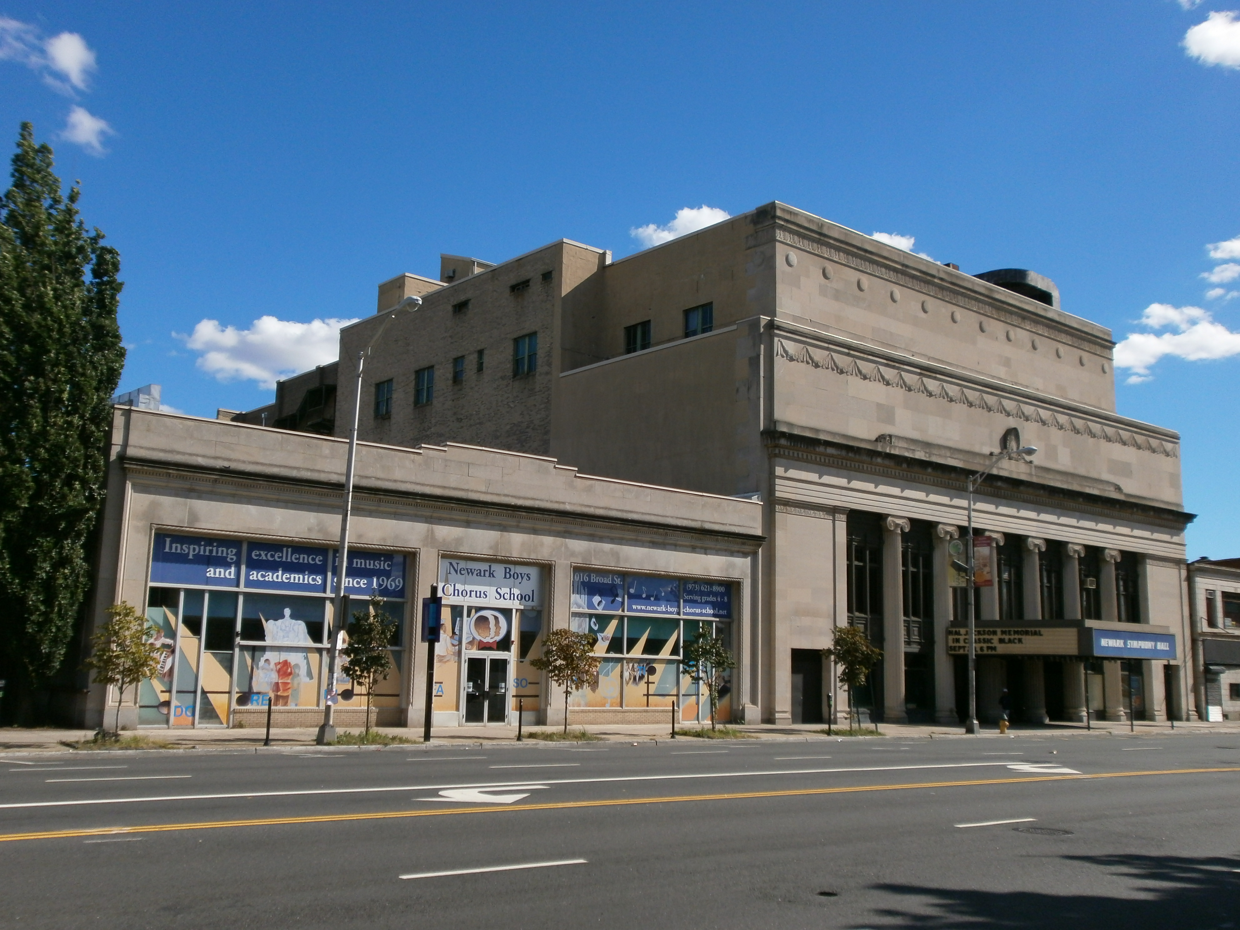 Newark Symphony Hall & Boys Chorus School Broad Street